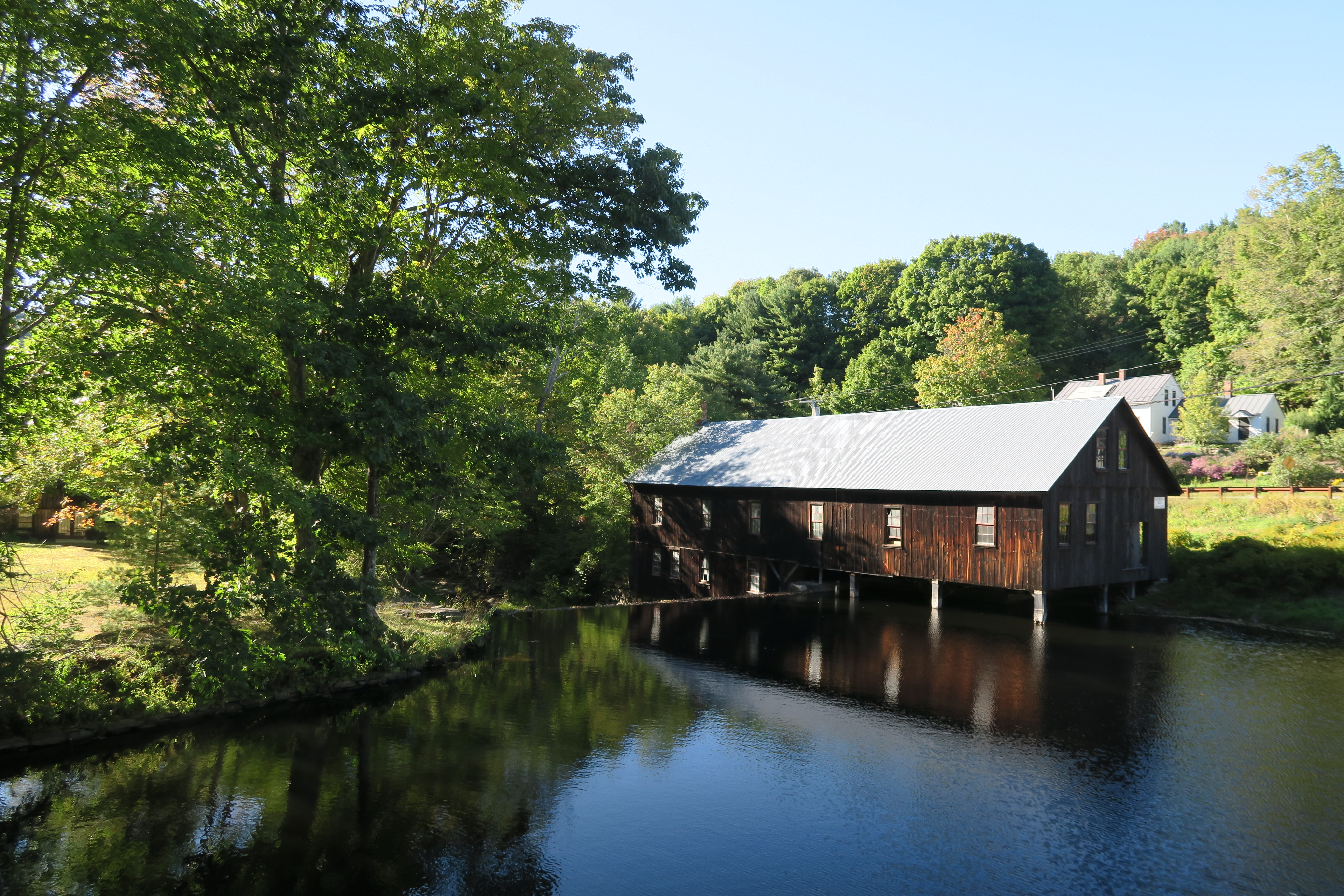 Slarrows Mill, North Leverett Massachusetts